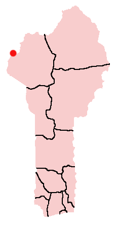 Porga, Benin Location Map; created with the GIMP. Made by User:Acntx.